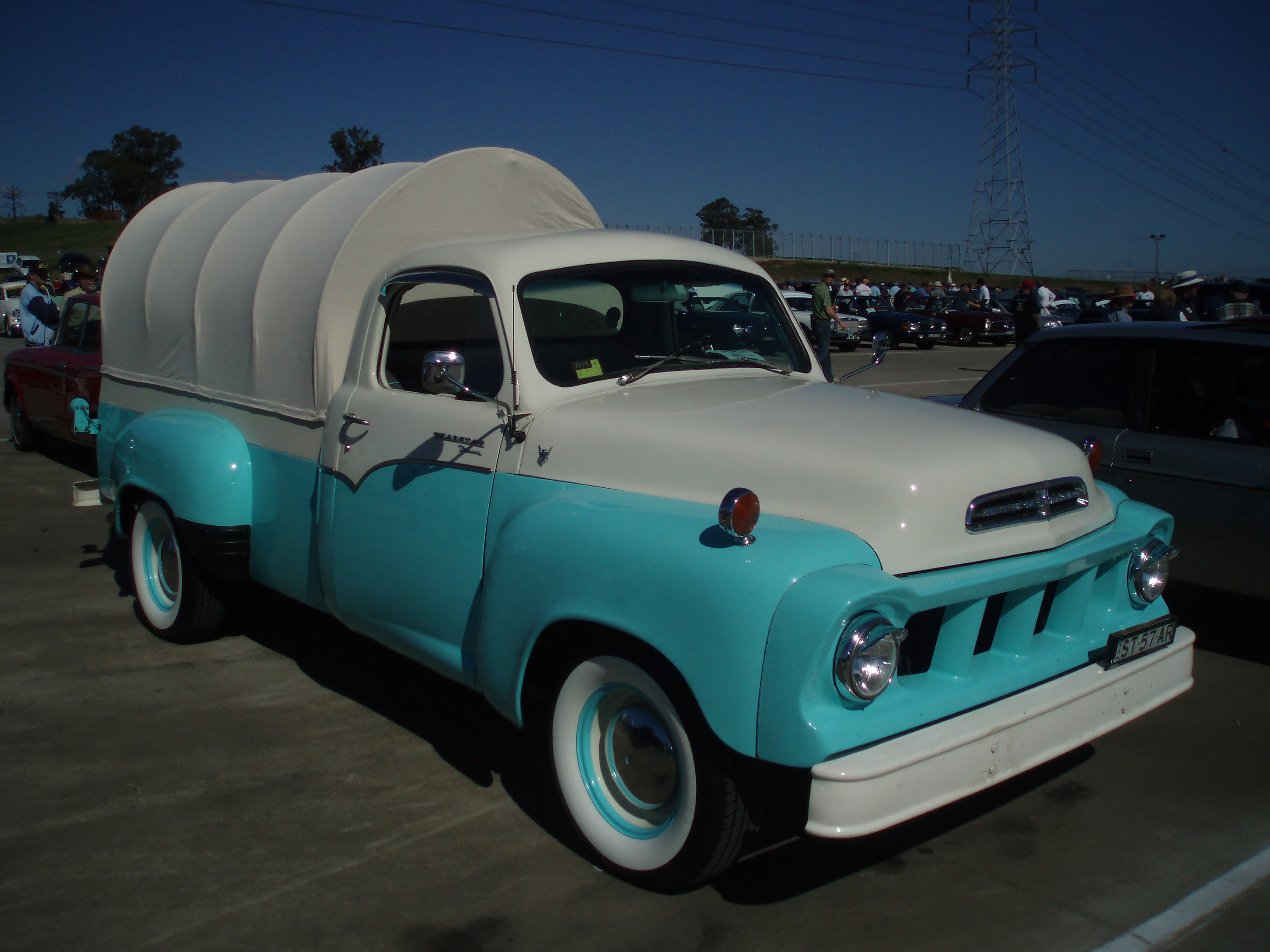 1957 Studebaker Transtar Deluxe V8 pick up. Taken at Shannon's Eastern Creek Classic 2009, held at Eastern Creek Raceway Sydney.